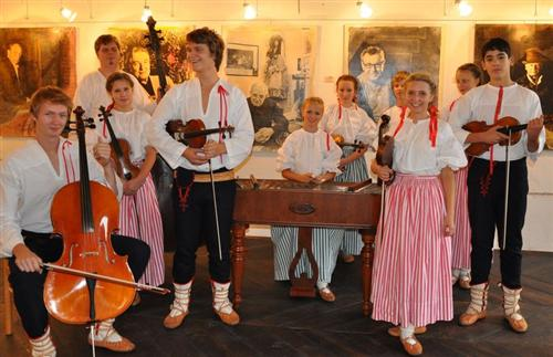 CM Pramínky